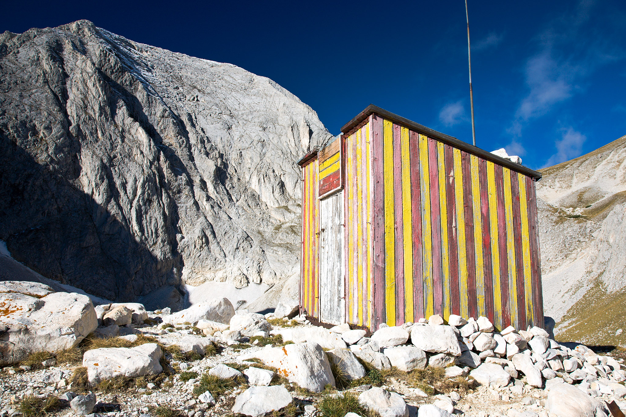 El-tepe (Kazana) refuge in Pirin mountain, Bulgaria